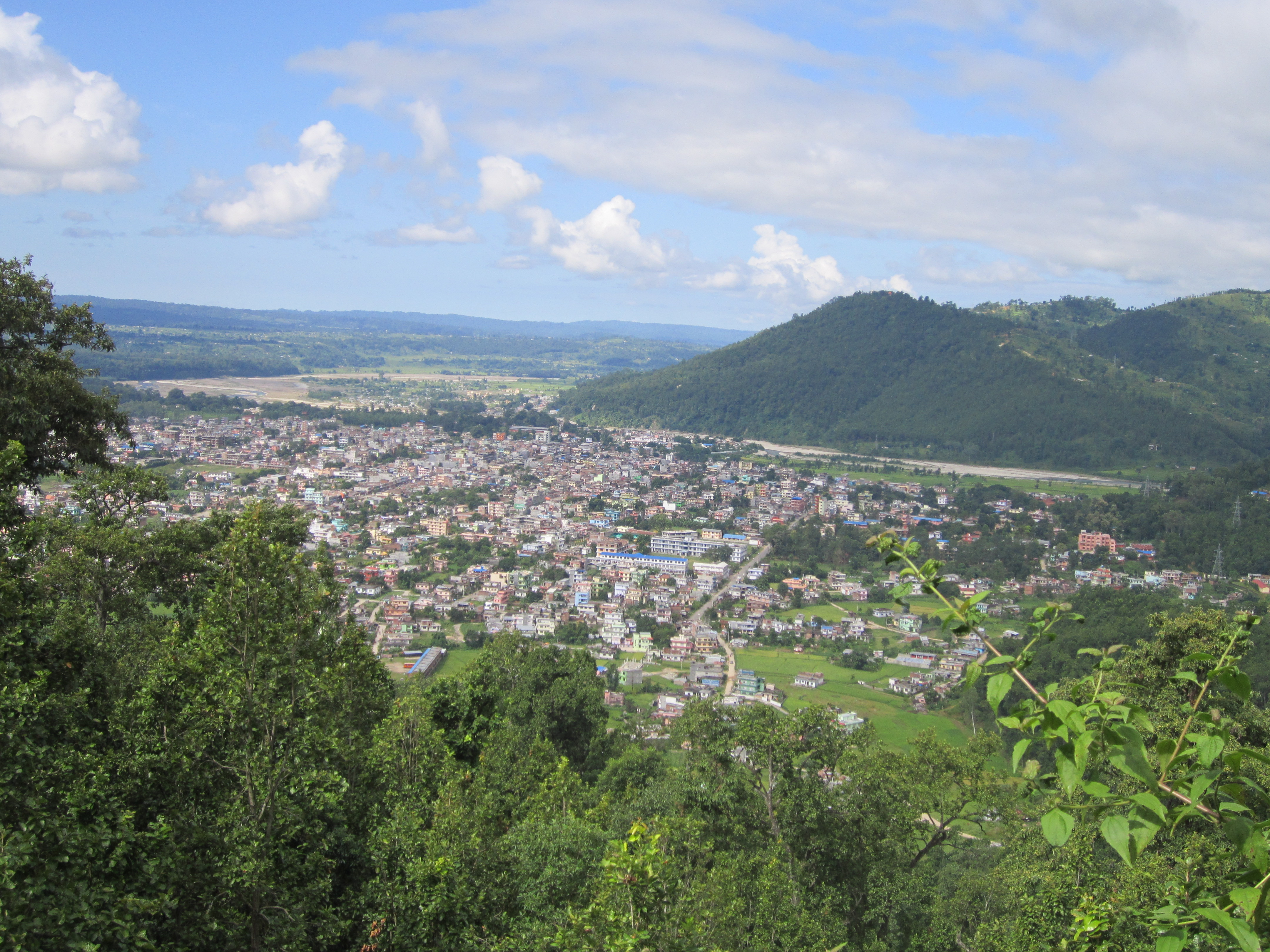 A view of hetauda from the hills